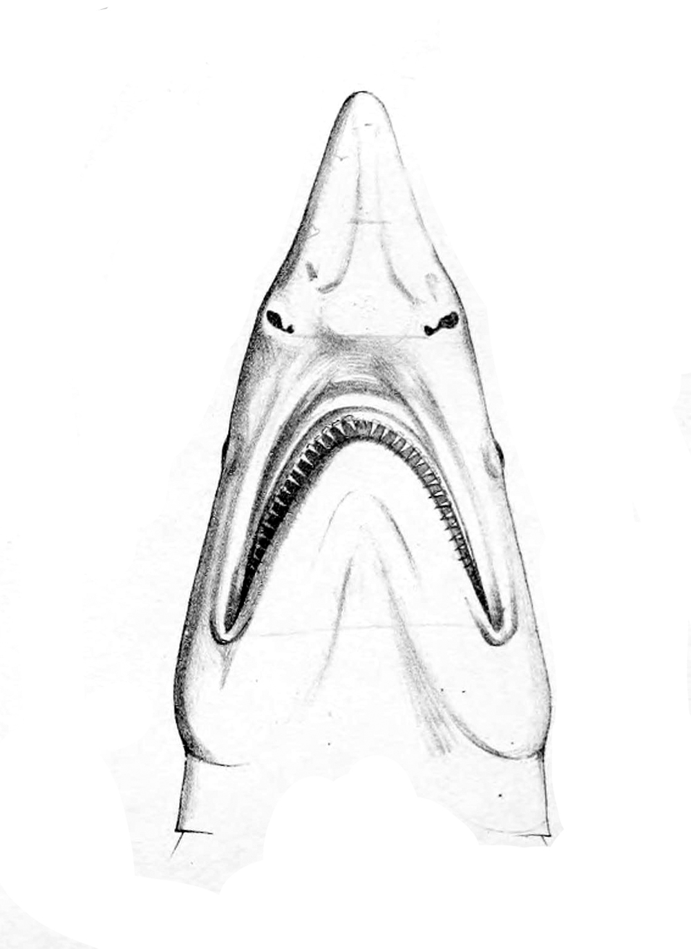 Isogomphodon oxyrhynchus